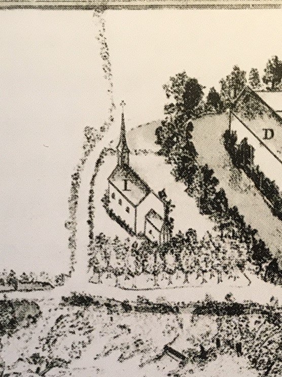 old church St. Severinus near castle hermuelheim